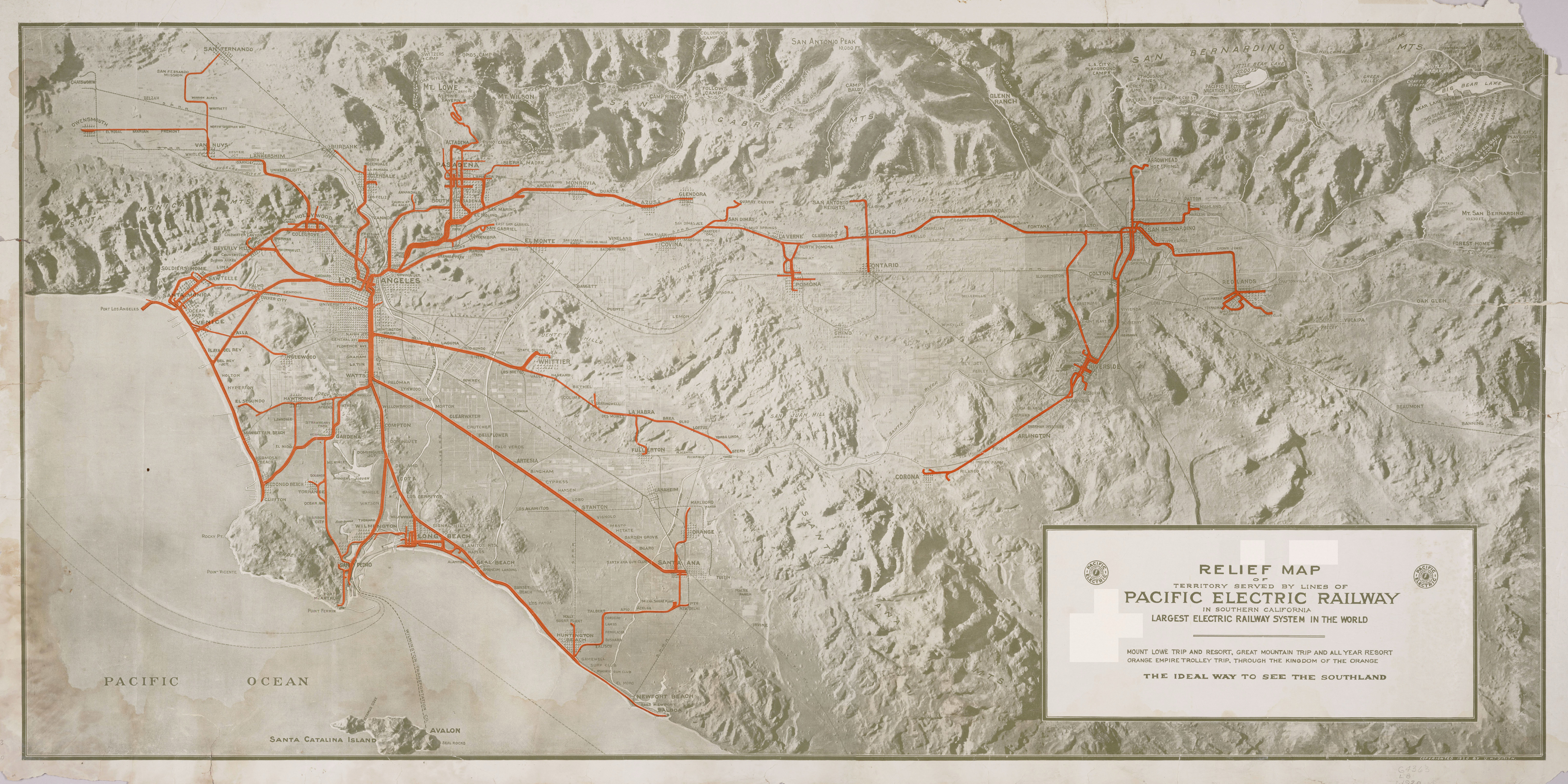 Relief map of territory served by lines of [the] Pacific Electric Railway in Southern California; largest electric railway system in the world Copyrighted 1920 by O.A. Smith Railway lines are overprinted in red Includes Santa Catalina Island "Mount Lowe trip and resort, great mountain trip and all year resort; Orange Empire trolley trip through the Kingdom of Orange"